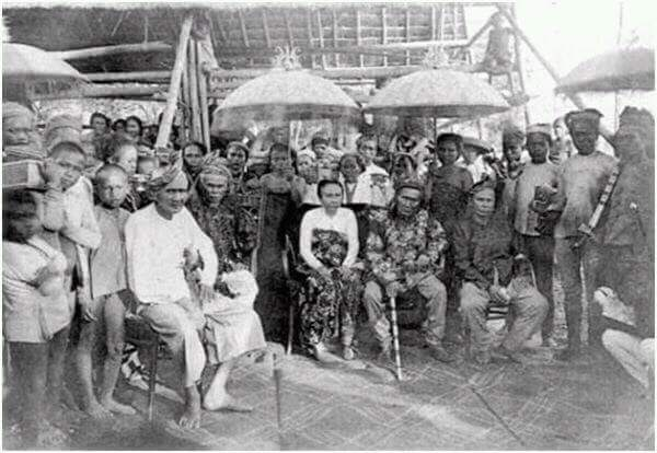 Datu Uto and his wife, Rajah Putri, photographed during the American colonial period.